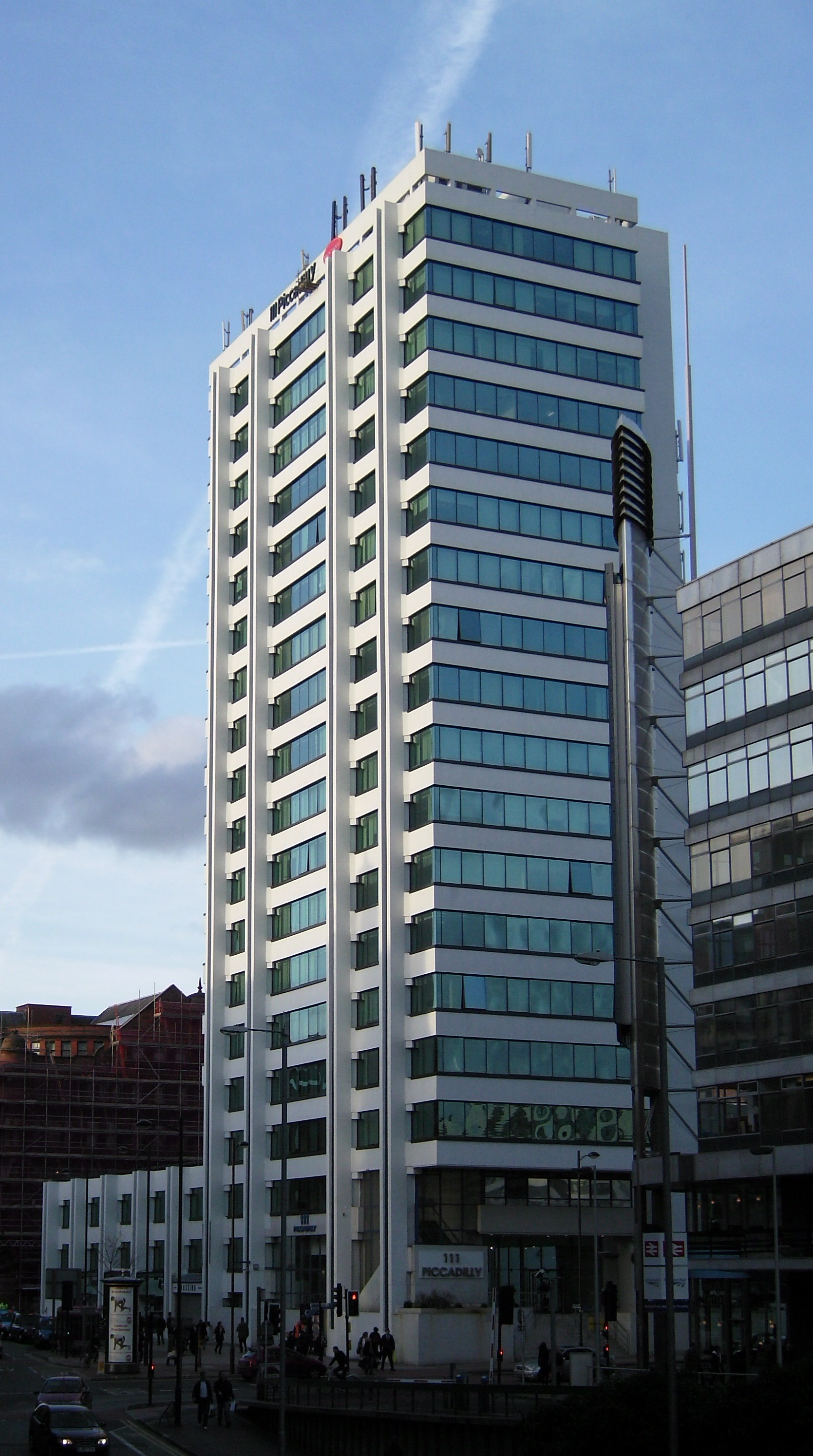 Image taken of 111 Piccadilly in Manchester, England by me.